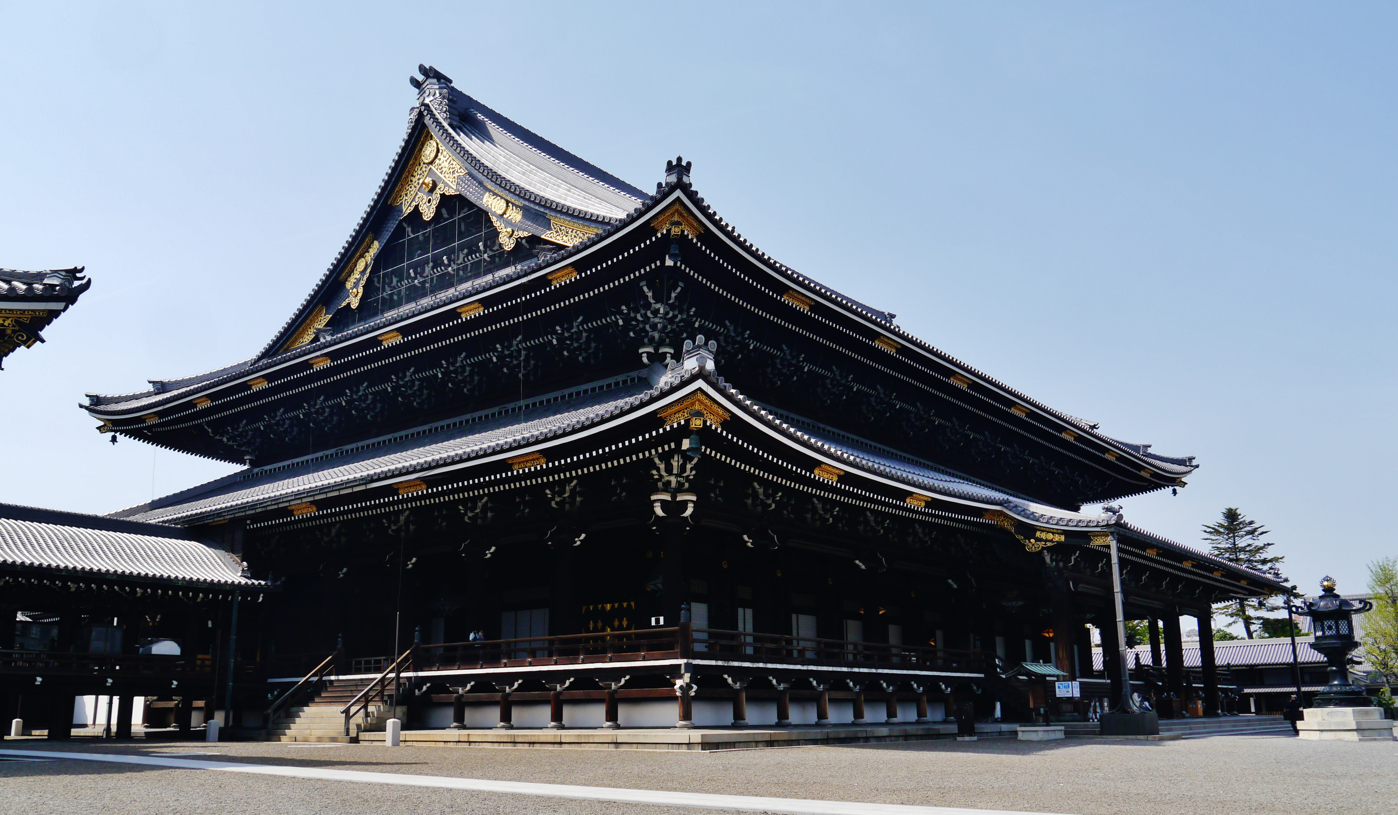 Founder's Hall of the Eastern Hingan Temple, Kyoto, Kyoto Prefecture, Kinki Region, Japan Panasonic Lumix DMC-G3